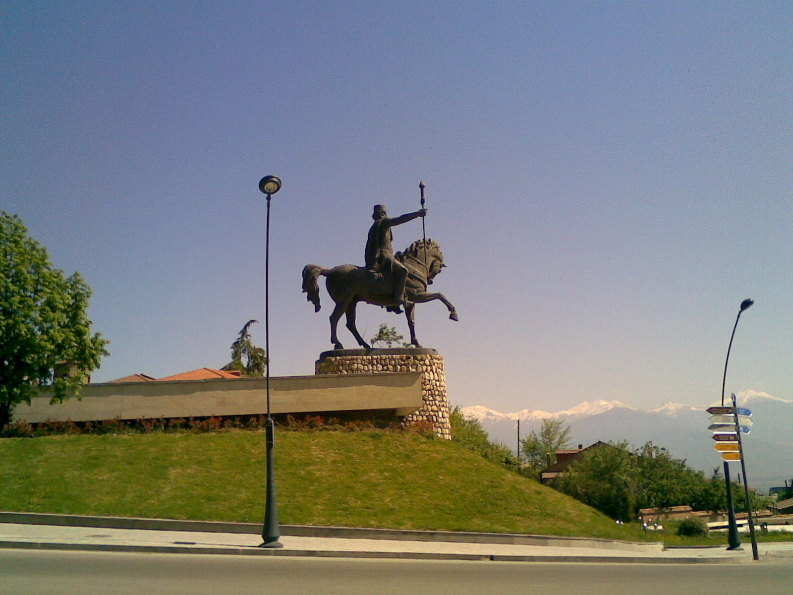 Monument of Heraclius II of Georgia in Telavi